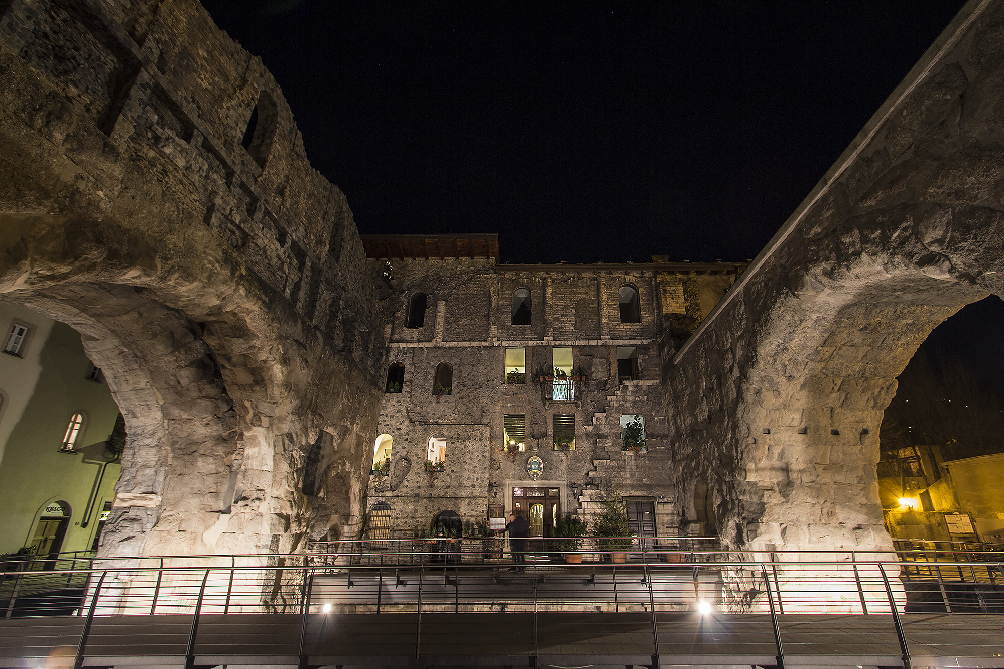 PORTA PRAETORIA di AOSTA This is a photo of a monument which is part of cultural heritage of Italy.